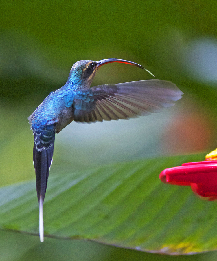 Green Hermit taken at Rancho Naturalista, Costa Rica.